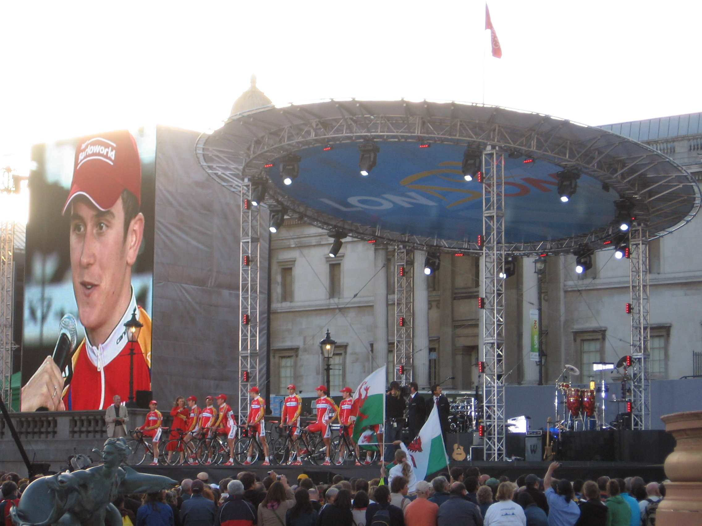 The British cyclist Geraint Thomas. Presentation of the 2007 Tour de France